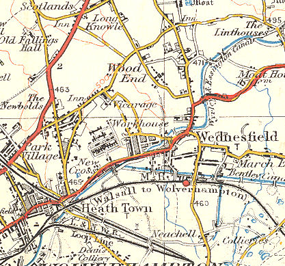 Map of Wednesfield, Staffordshire